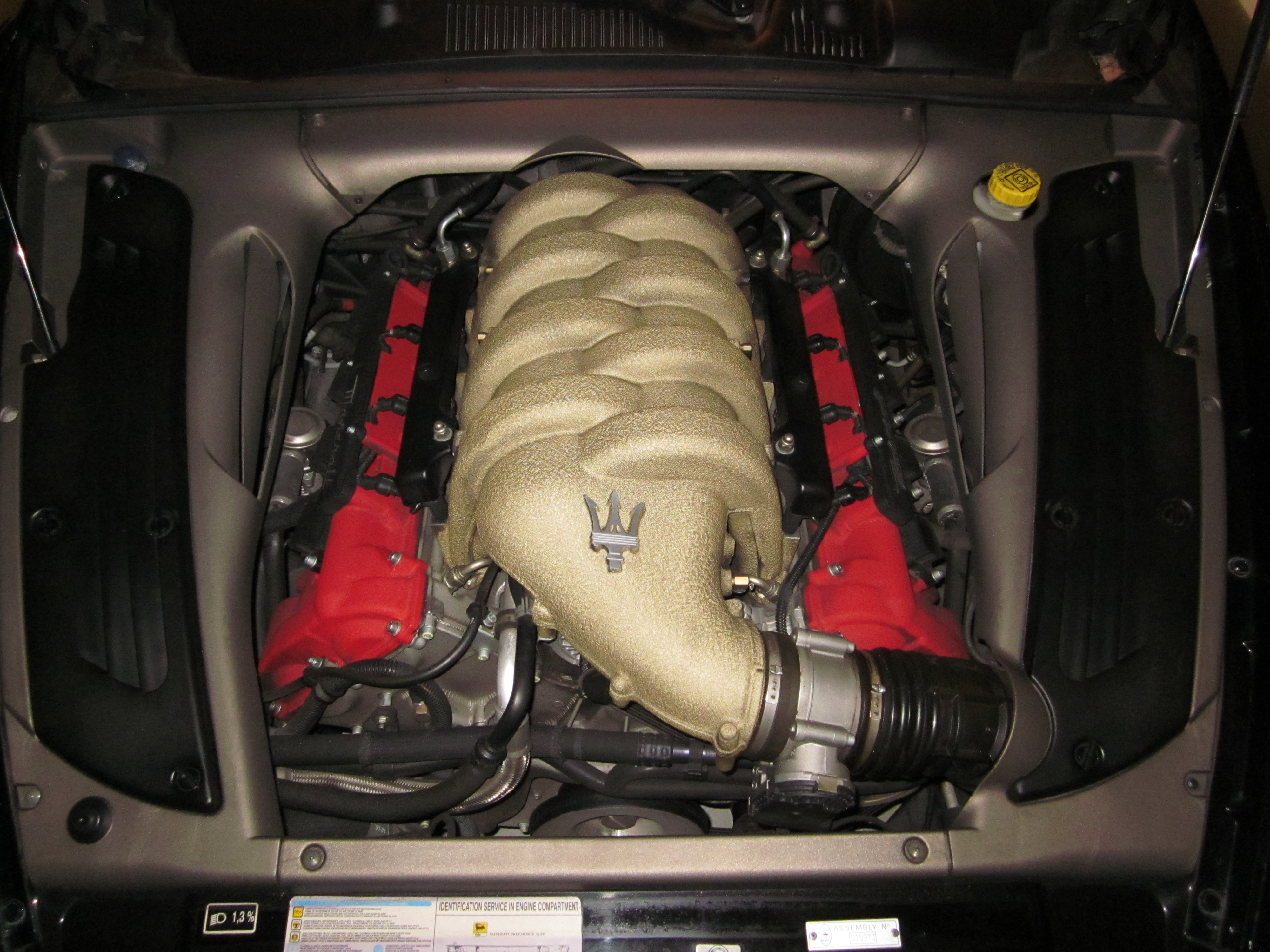 V8 Engine of a Maserati Coupe